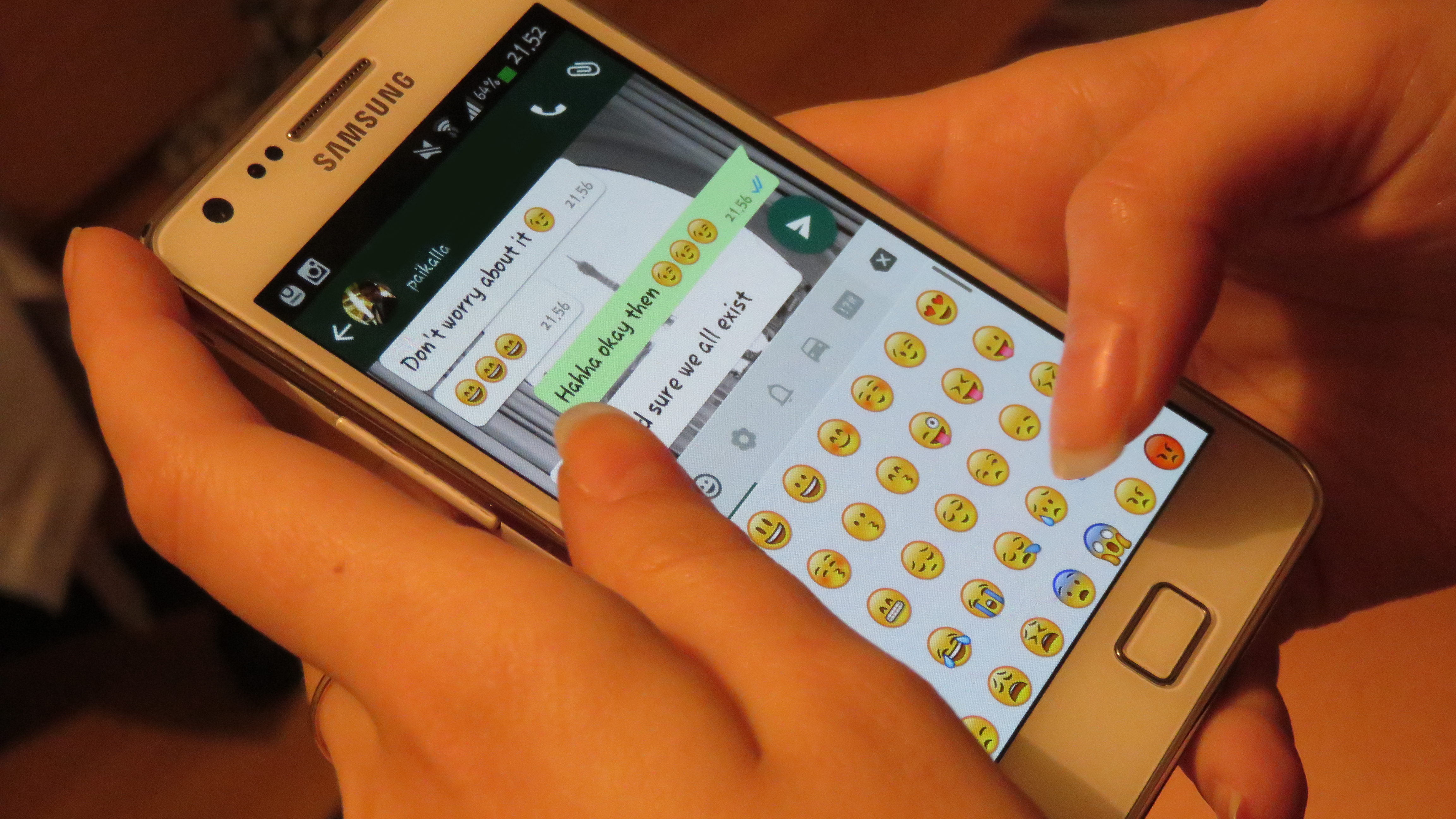 Texting in whatsapp